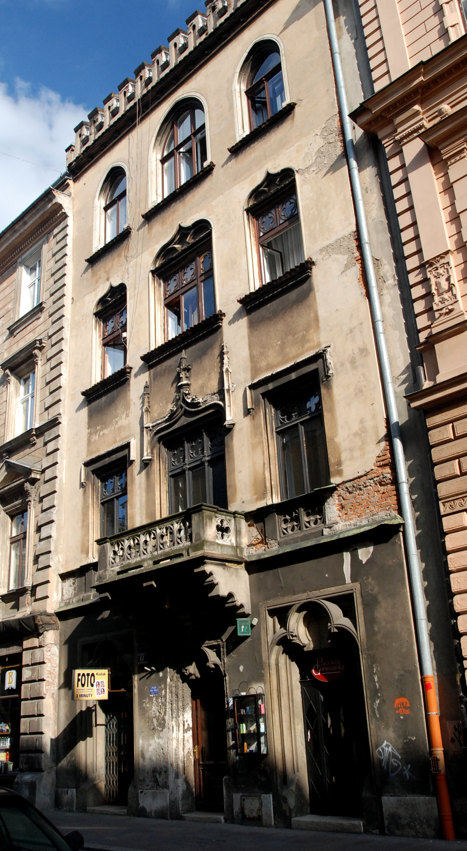 Szpitalna street, 17. Kraków, Poland. Gothic revival facade by Filip Pokutyński.